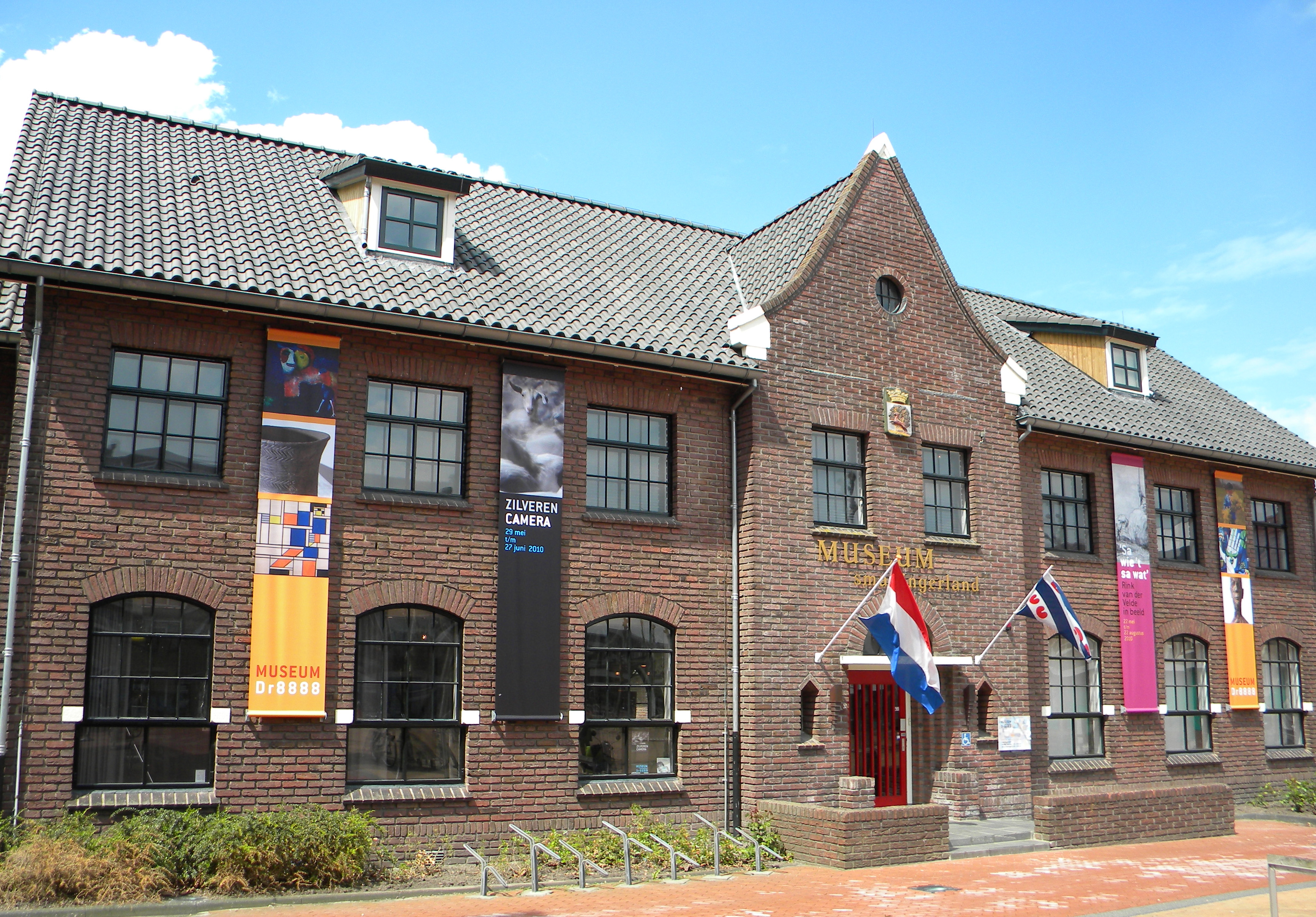 Front view Museum Drachten Smallingerland